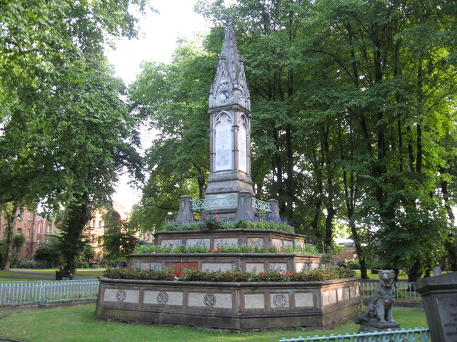 The Burdett Coutts Memorial Sundial, St Pancras Gardens, London This memorial sundial, which is a Grade II listed structure, was unveiled in 1879 by Baroness Angela Georgina Burdett-Coutts (1814-1906), a great Victorian philanthropist who sought to rid London of its slums. It lists the names of a number of eminent persons buried within St Pancras Gardens. The memorial is constructed of Portland Limestone, marble, granite and Red Mansfield Sandstone.The whole structure is enclosed by cast iron railings with Portland Limestone statues at each corner, one of which is thought to have been modelled on the famous terrier, Greyfriars Bobby, which Baroness Burdett-Coutts saw and admired for its devotion to its dead owner.